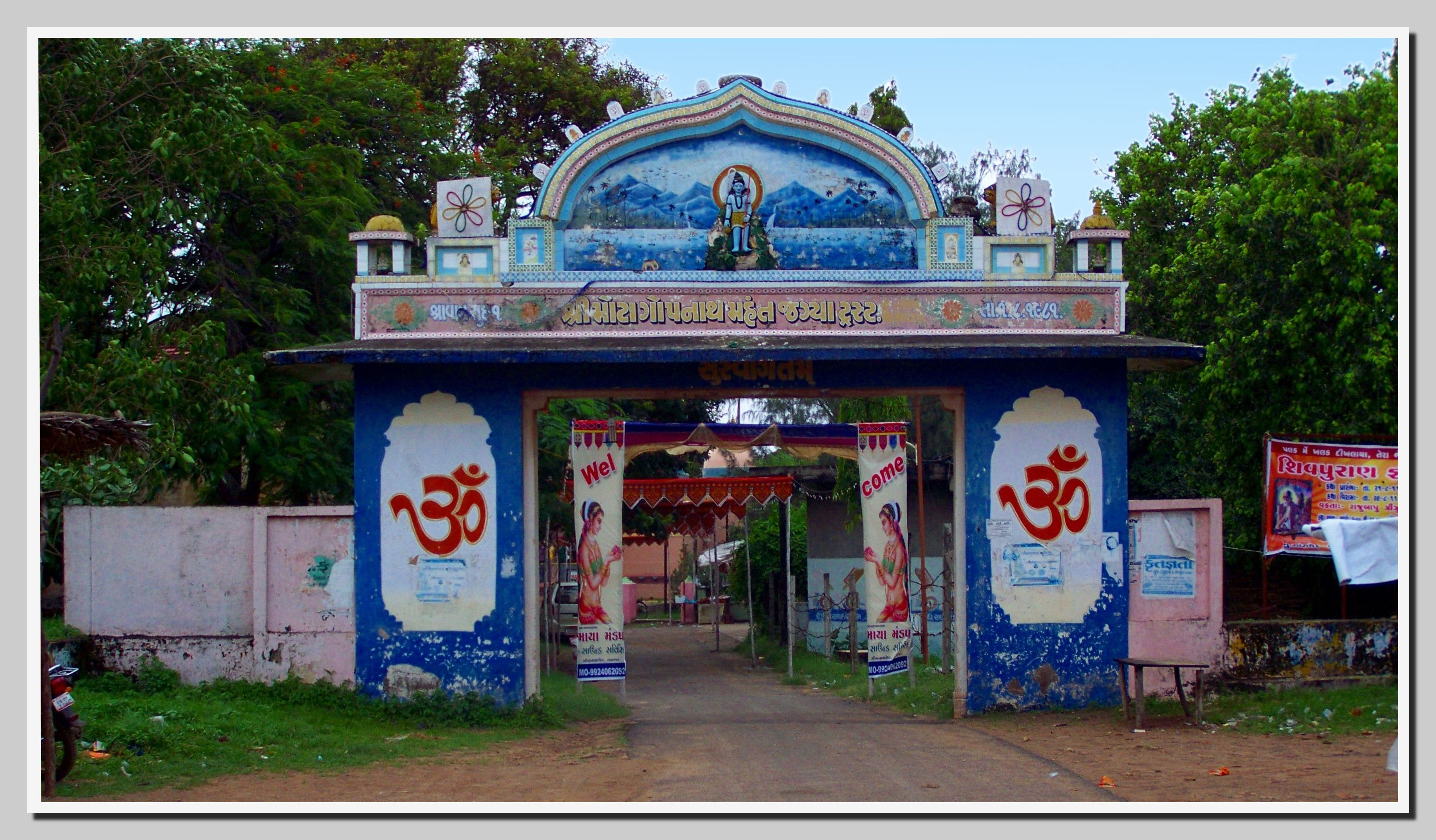 Gopanath Temple